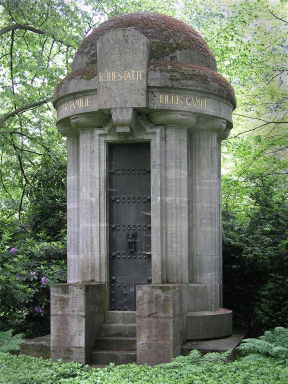 cemetery Ohlsdorf (Hamburg, Germany), mausoleum Campe, photo 2006